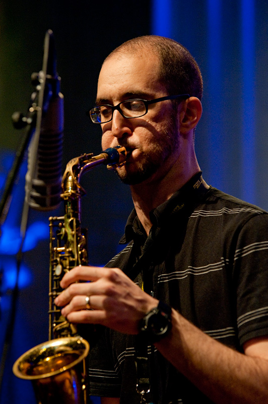 Steve Lehman, moers festival 2010